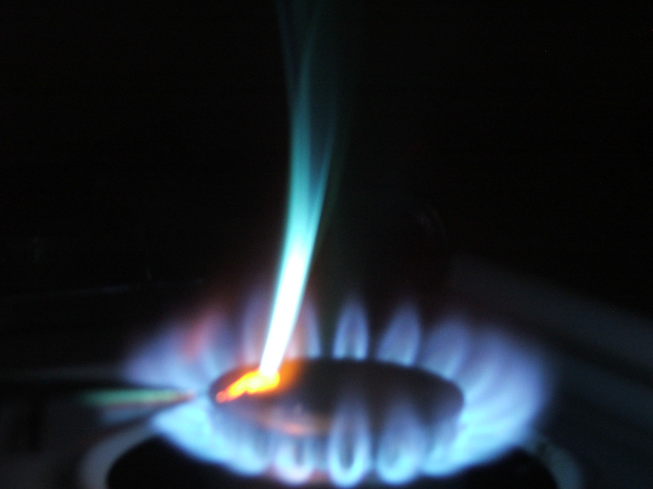 Zinc burning in a flame. The flame is bluish-green.